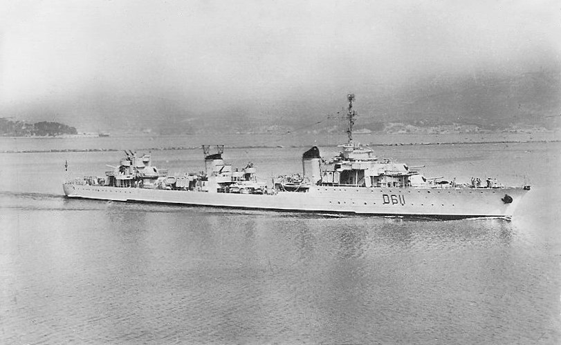 Fantasque-class destroyers Le Terrible